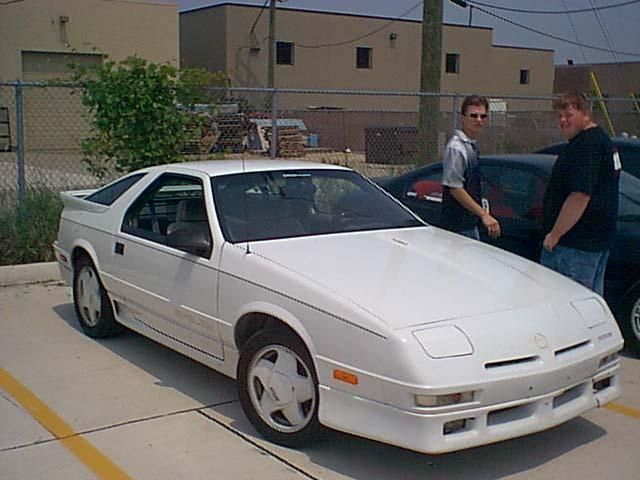 A 1990 Dodge Daytona Shelby VNT